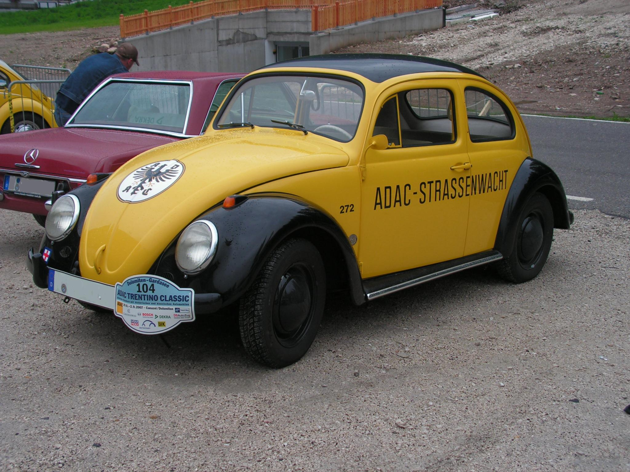 A Volkswagen Beetle used by ADAC. Photo taken in Canazei (Italy) during the ADAC Trentino Classic